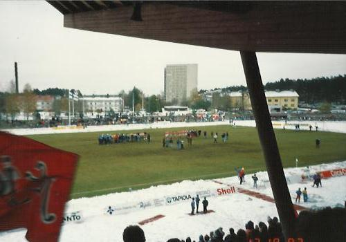 FC Jazz vs Kuusysi, Pori Finland 1992.